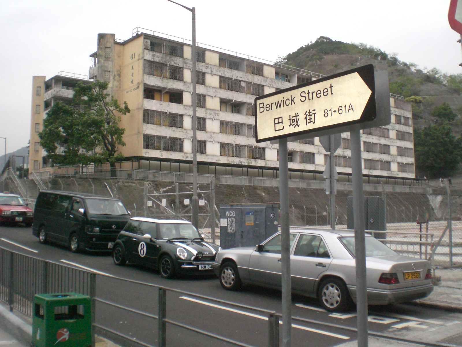 深水埗zh:巴域街美荷樓